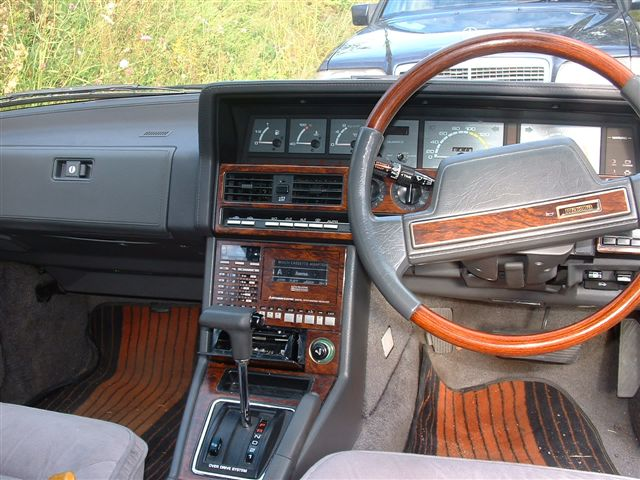 The dash of a Mazda Luce 2.0i Genteel-X